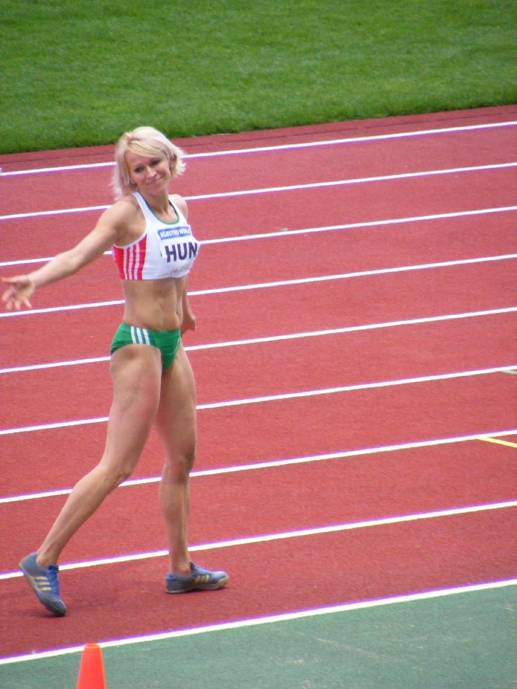 Zita Ajkler long jumper after 2010.Team European Champs